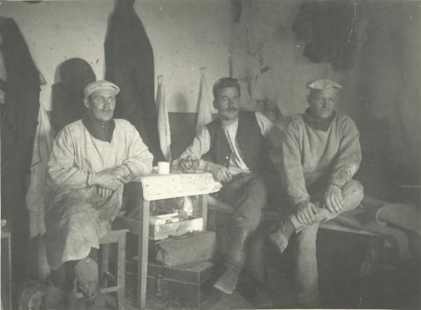 Red Guard members Tuomas Mäkelä (left), Edvard Nyqvist and Jali Joutsen in the Suomenlinna Prison Camp 1918.